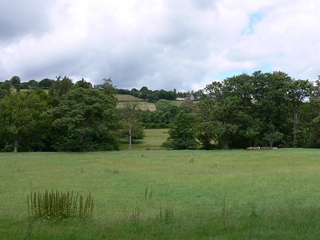 Trallong From Abercamlais Junction of track from Abercamlais with minor road just visible to left of houses of Trallong village. Out of shot over field in forecground is the River Usk, beyond, a line of undergrowth shows where the disused railway is.